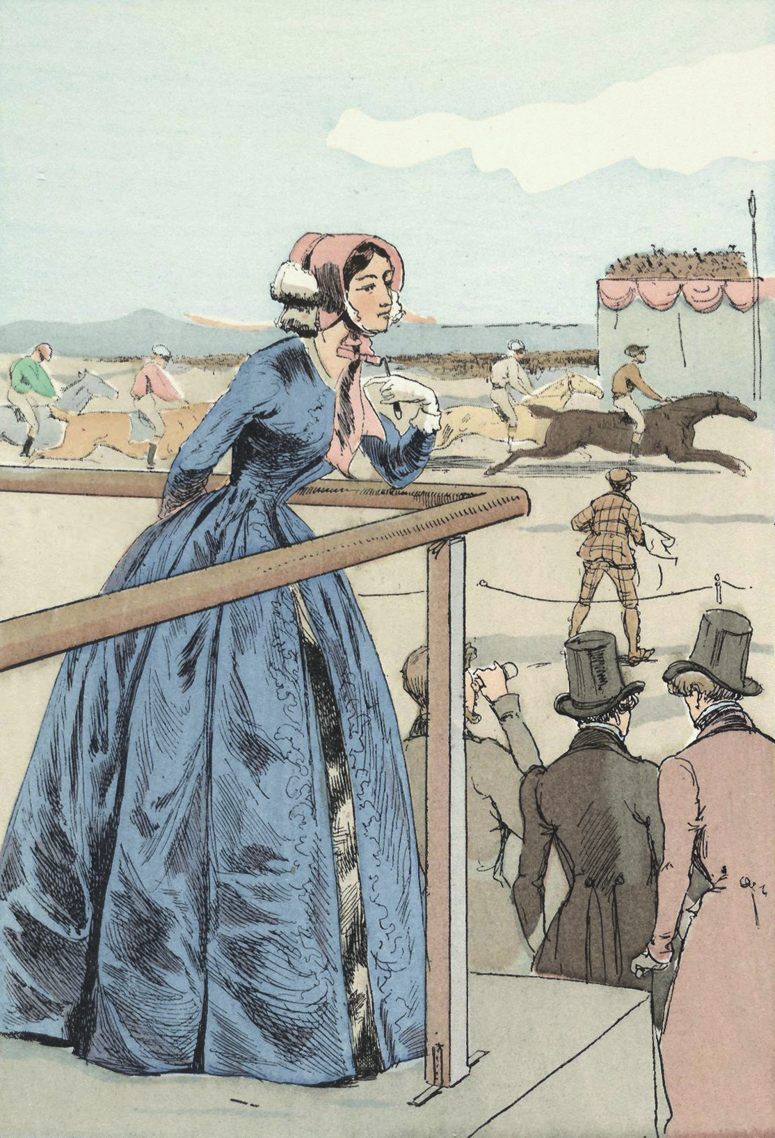 The woman depicted in this plate is wearing a dress with a blue redingote and a pink bonnet. She has a corseted waist and her skirt is supported by a fairly narrow crinoline, . The men in the middle ground are wearing similar dark coats with a fitted waist and tails, as well as top hats. Abstract sources: Boucher, François. 20,000 Years of Fashion. New York: Harry N. Abrams, Inc, 1967. Ruppert, Jacques. Le Costume Français. Paris: Flammarion, 1996.